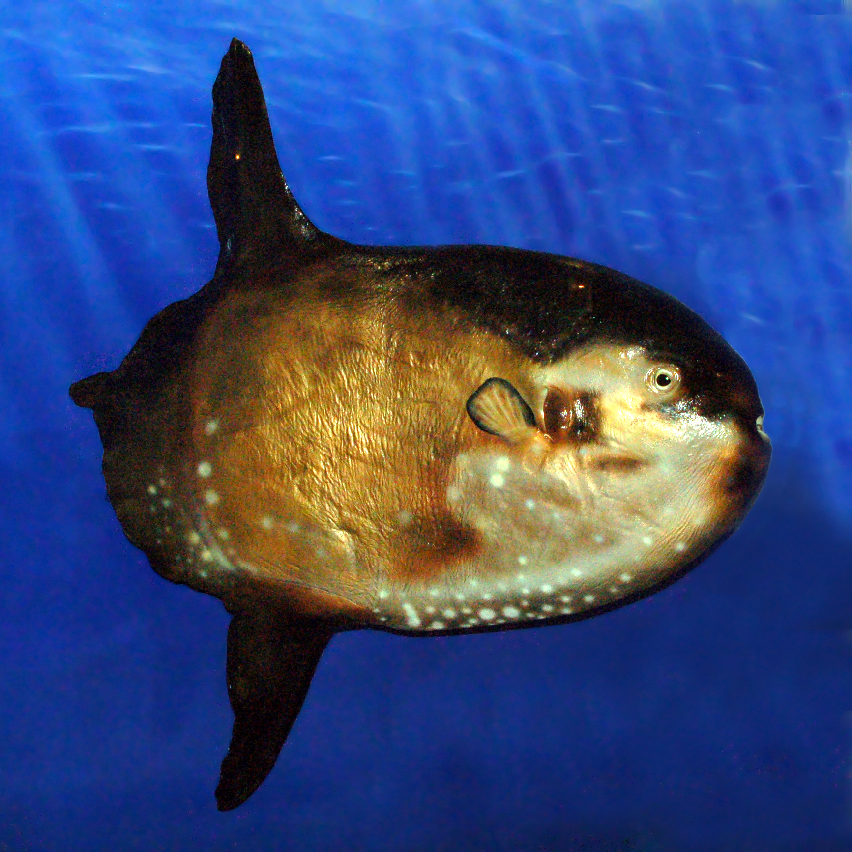 Masturus lanceolatus. Mounted specimen at the Museu Nacional de Historia Natural de Lisboa